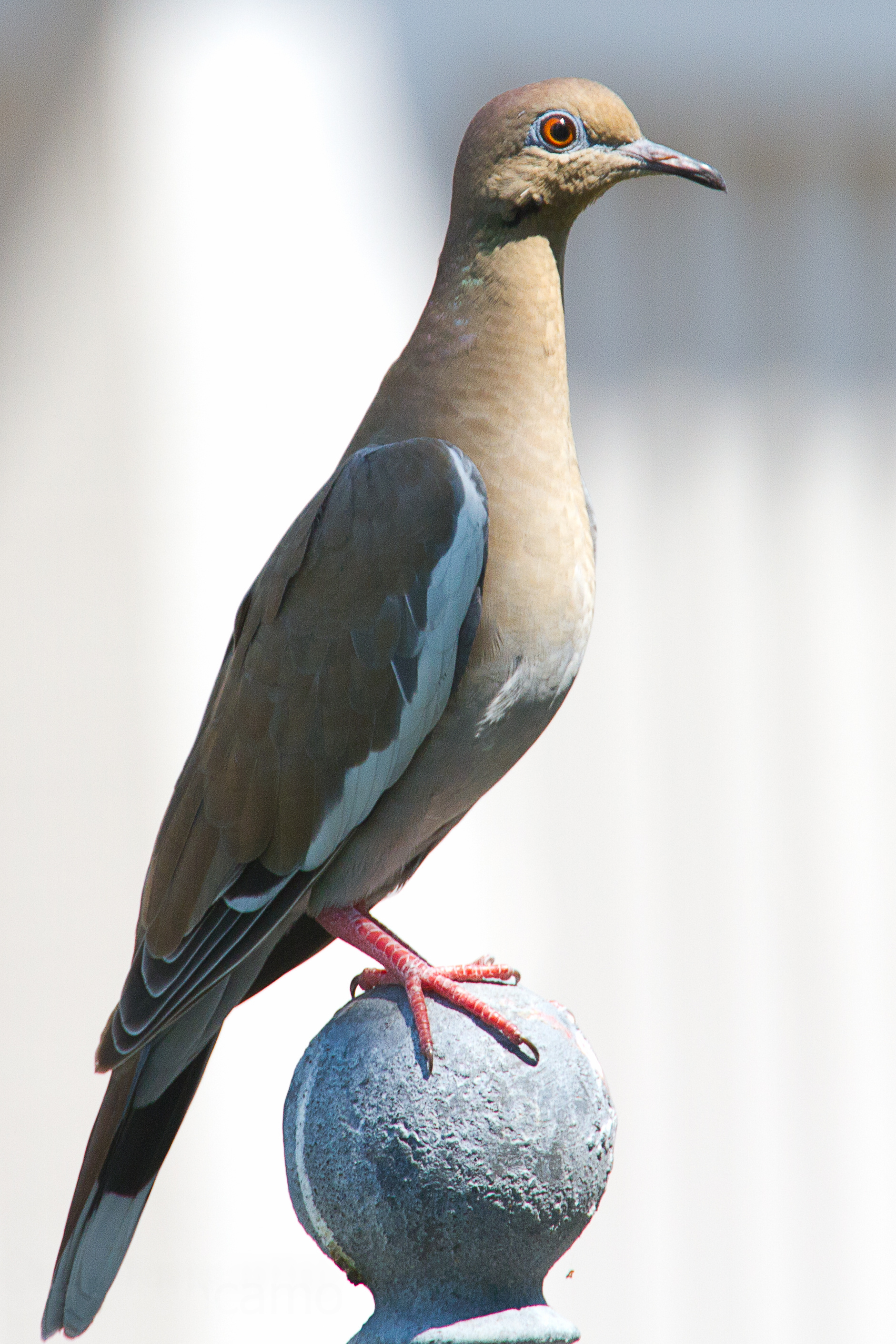 A White-winged Dove on Galveston Island, Galveston, Texas, USA.